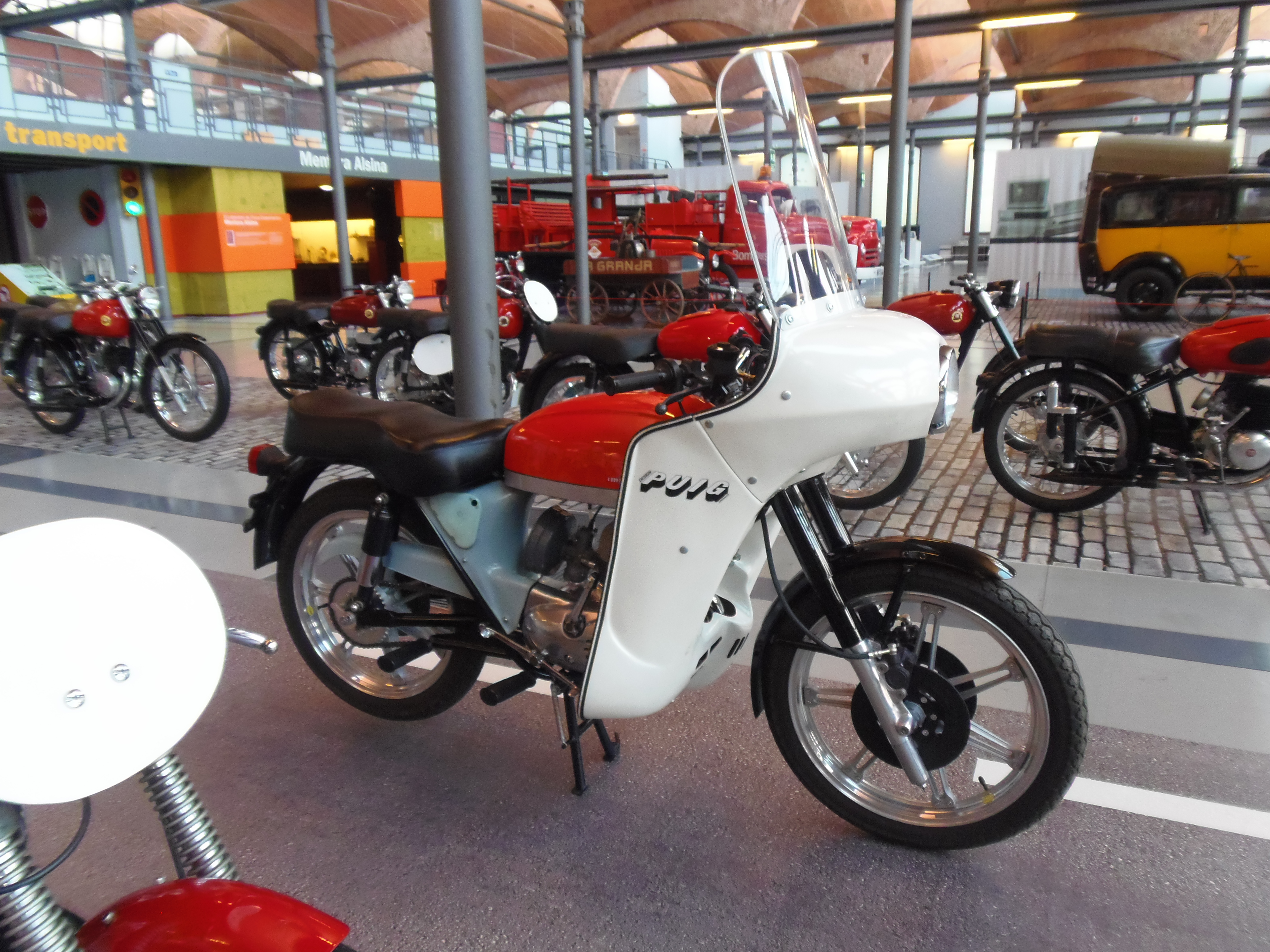 Montesa Impala 2 Rally, 175cc, 5 speed gearbox, 1985. Developed for racing in rallies, only 4 units were made.